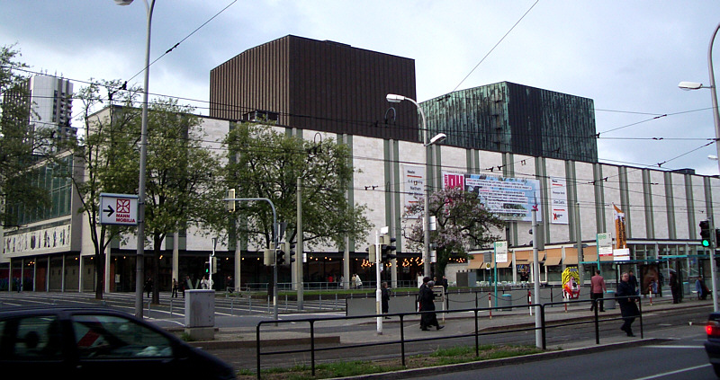 Mannheim, Germany: Nationaltheater (left: drama theatre flytower, right: opera house flytower)